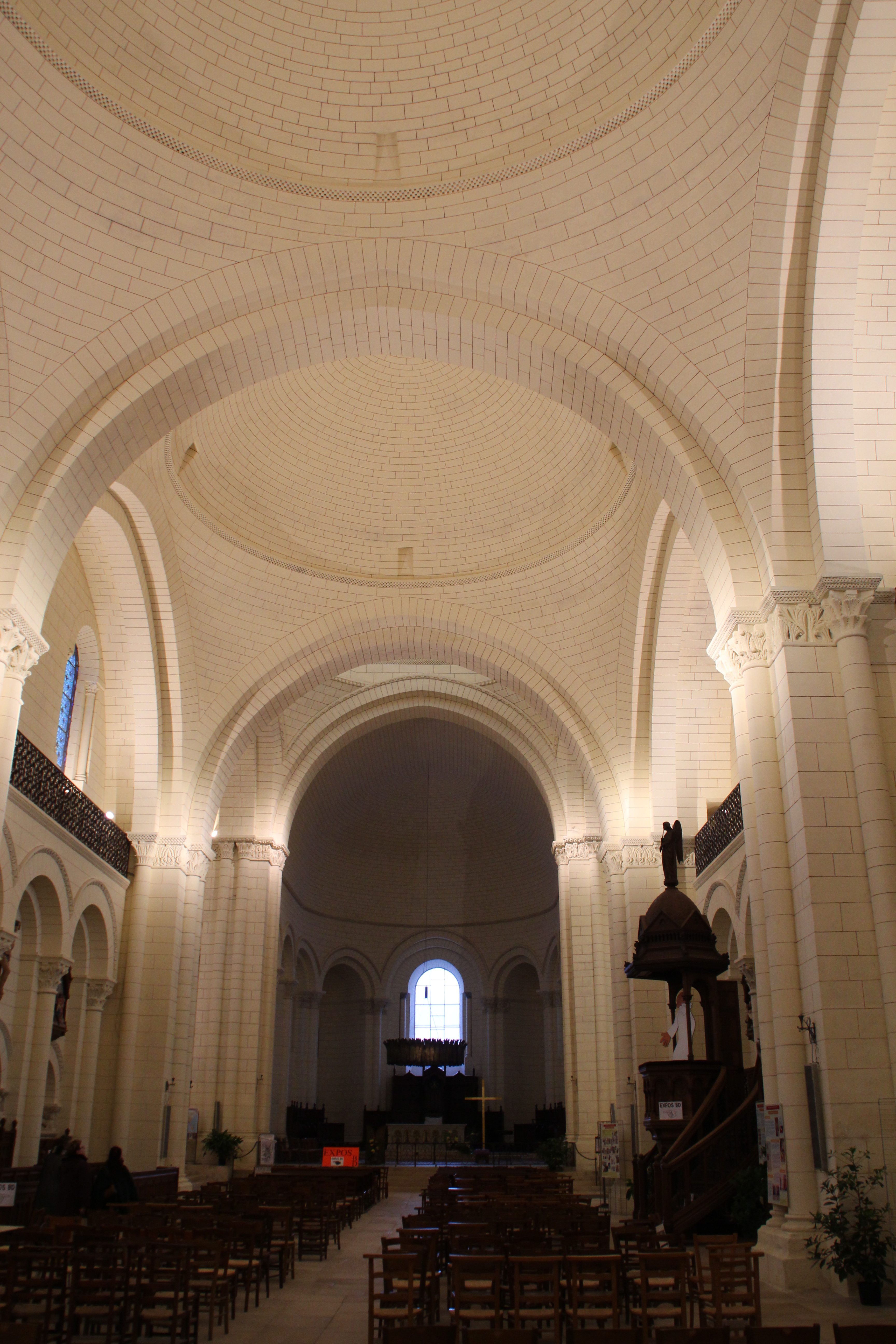 View of the Saint-Pierre d'Angoulême cathedral during the Angoulême International Comics Festival 2013.